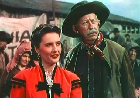 Barbara Stanwyck and Will Wright in the American western film California (1947) - trailer (cropped screenshot)